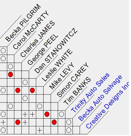 This is an example of an association matrix